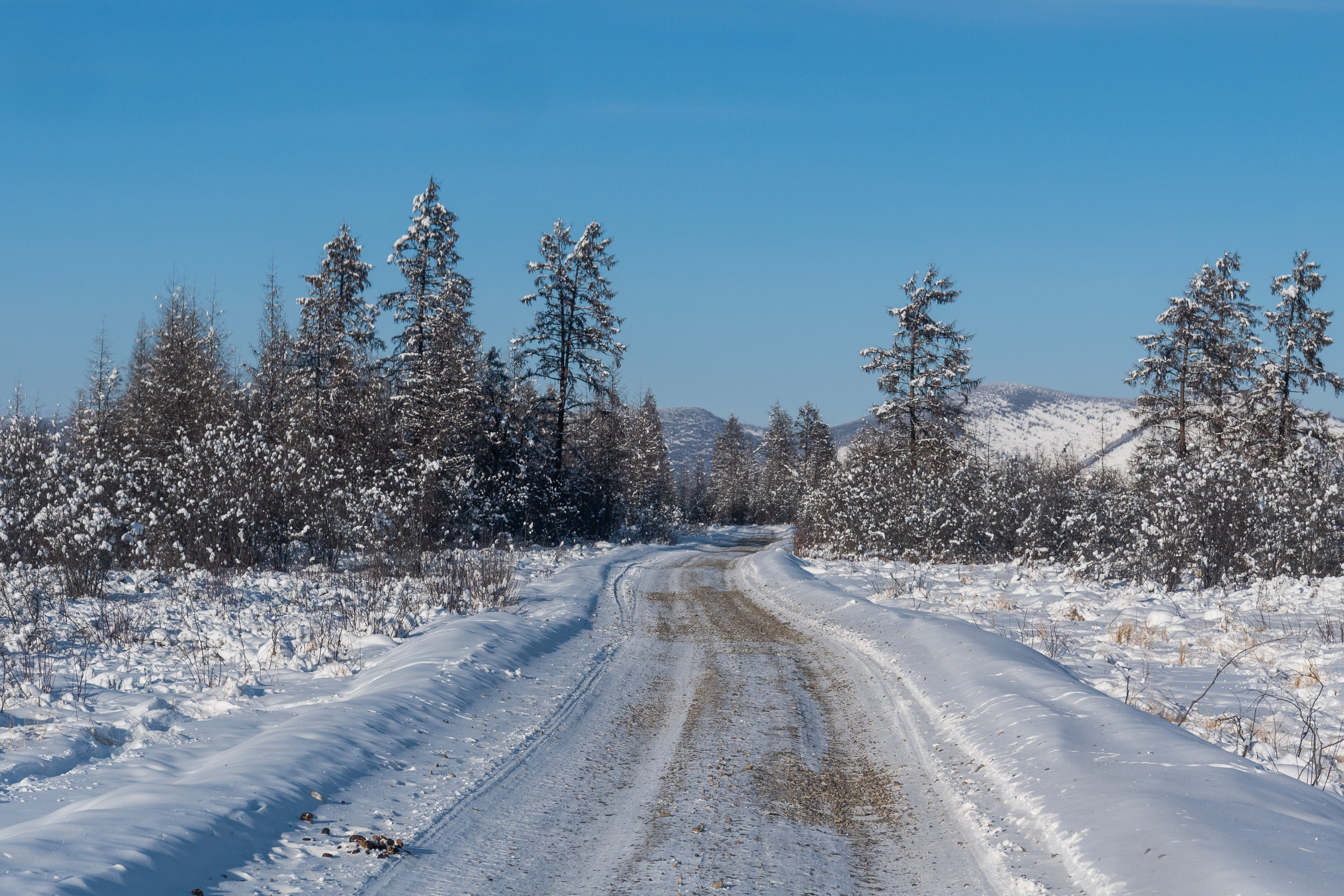 Oymyakon, Sakha Republic, Russia